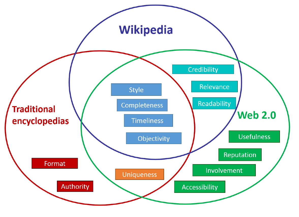 Quality dimensions of the traditional encyclopedias, Wikipedia, Web 2.0